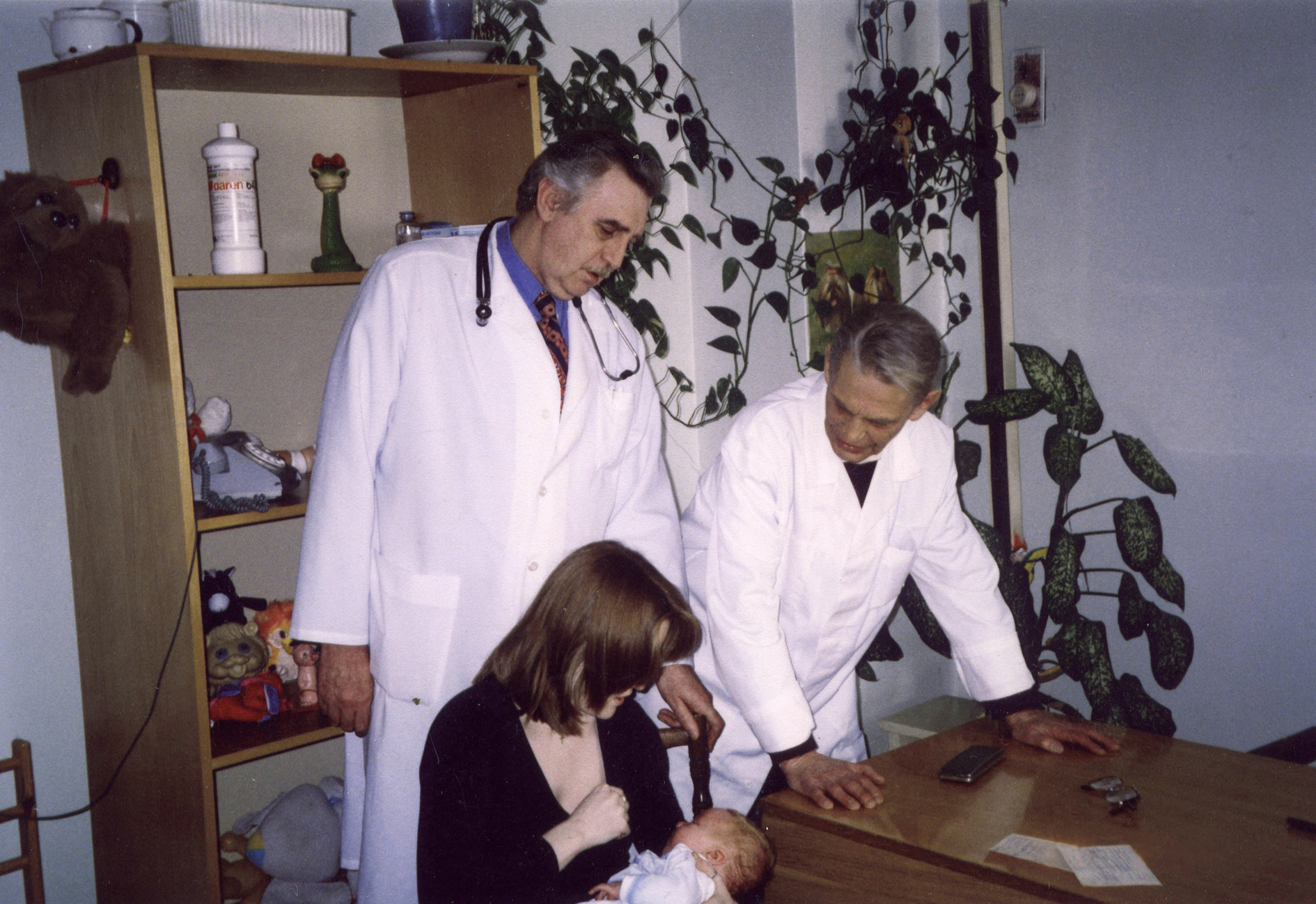 Boldirev Rem, docent of Pediatrics and Korenev Pavel